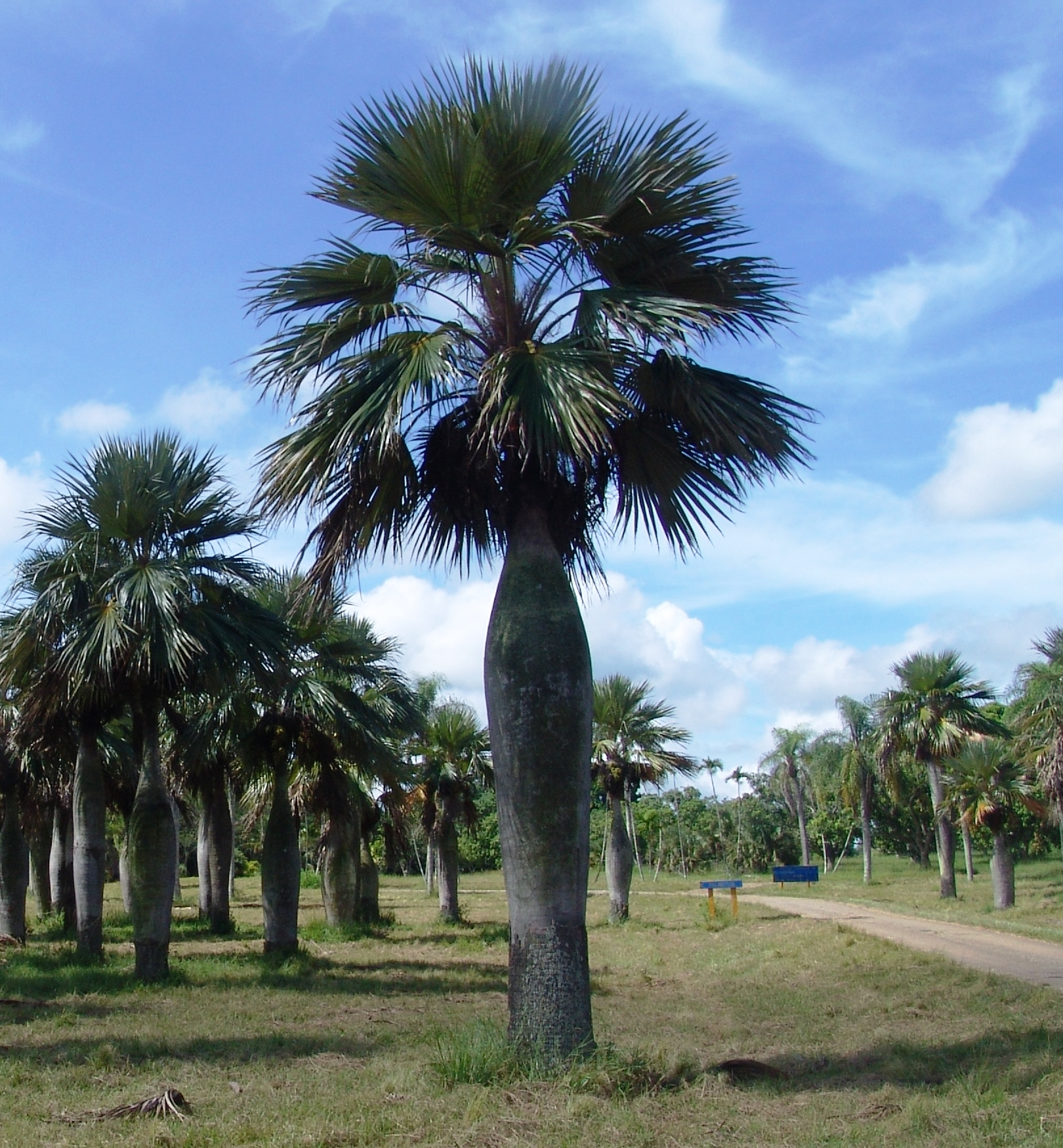 Colpothrinax wrightii, "Palma Barrigona" at the Jardín Botánico de La Habana, August 2014.